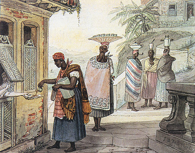 Group of "baianas" selling their goods in XIXth Century Rio de Janeiro